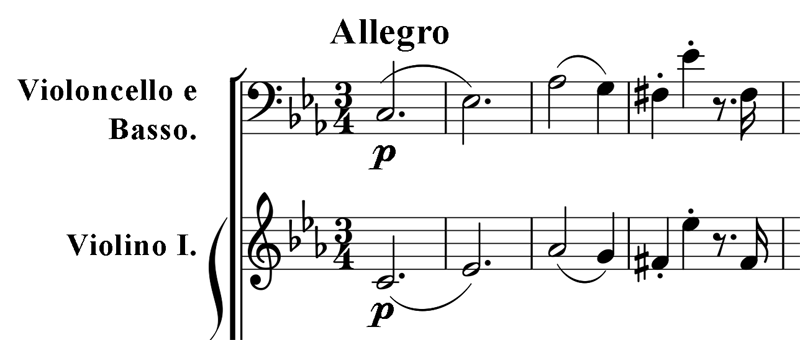 Mozart - Piano Concerto No.24 in C Minor K491 - 1st Movement opening